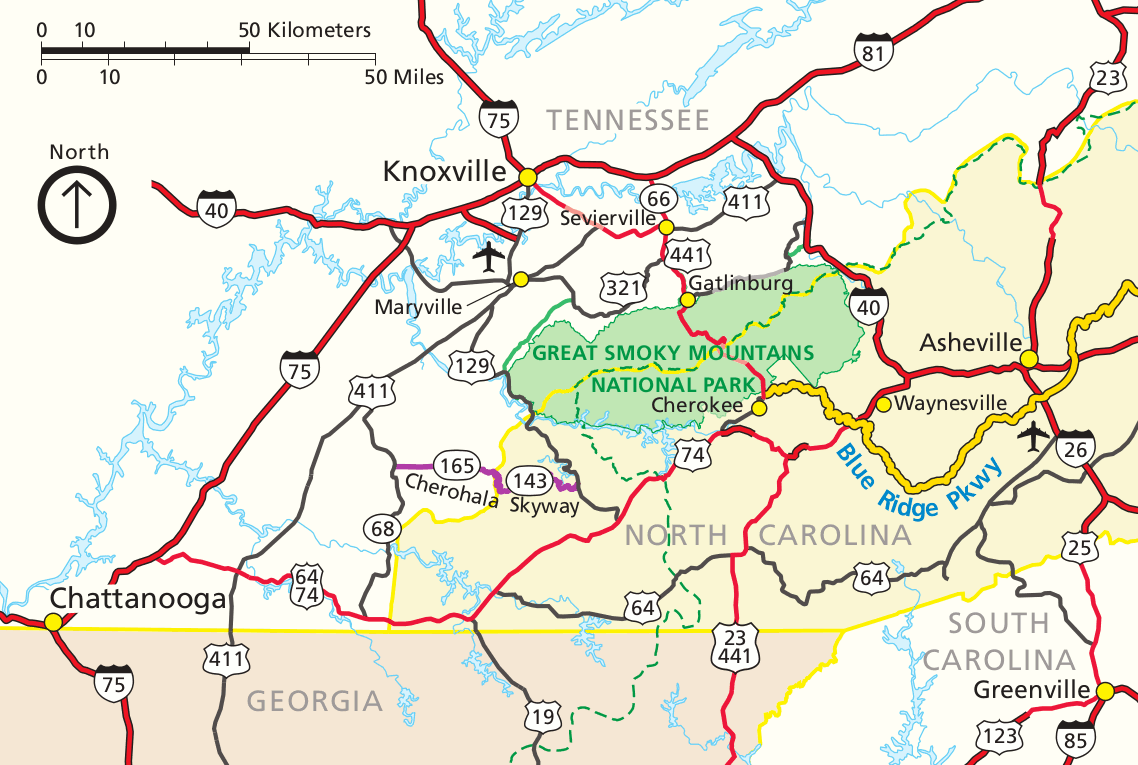 Regional map of the Great Smoky Mountains National Park showing roads and highways